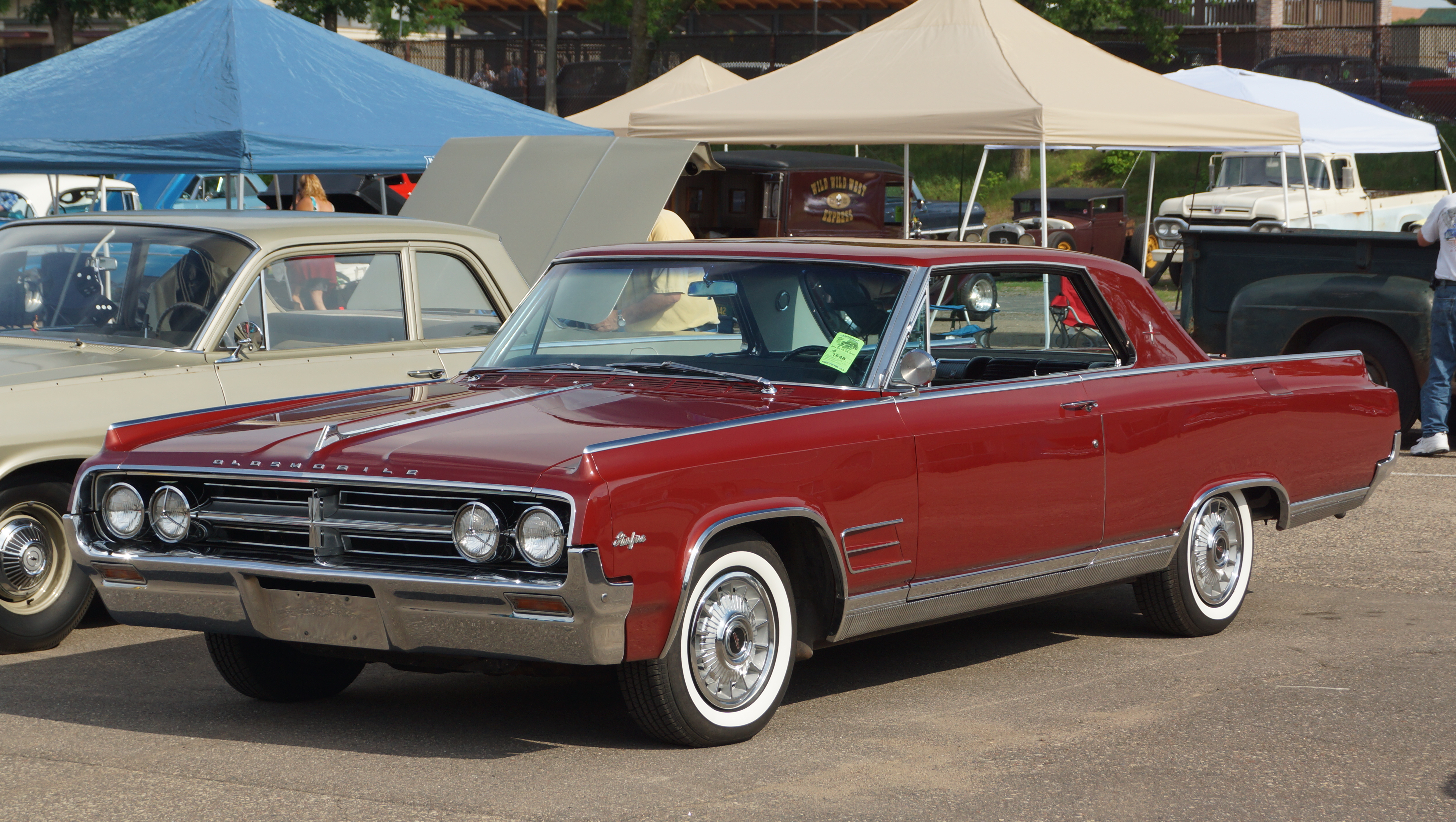 Minnesota Street Rod Association (MSRA) “BACK TO THE 50′s” 45th Annual Car Show & Swap Meet June 22-24, 2018 Minnesota State Fairgrounds St. Paul Minnesota Click here for previous "Back to the 50's" pictures.. Click here for more car pictures by make Click here for Car Event pictures by year. Or here for my Car Crazy Tumblr site. Or on Twitter @DVS1mn.